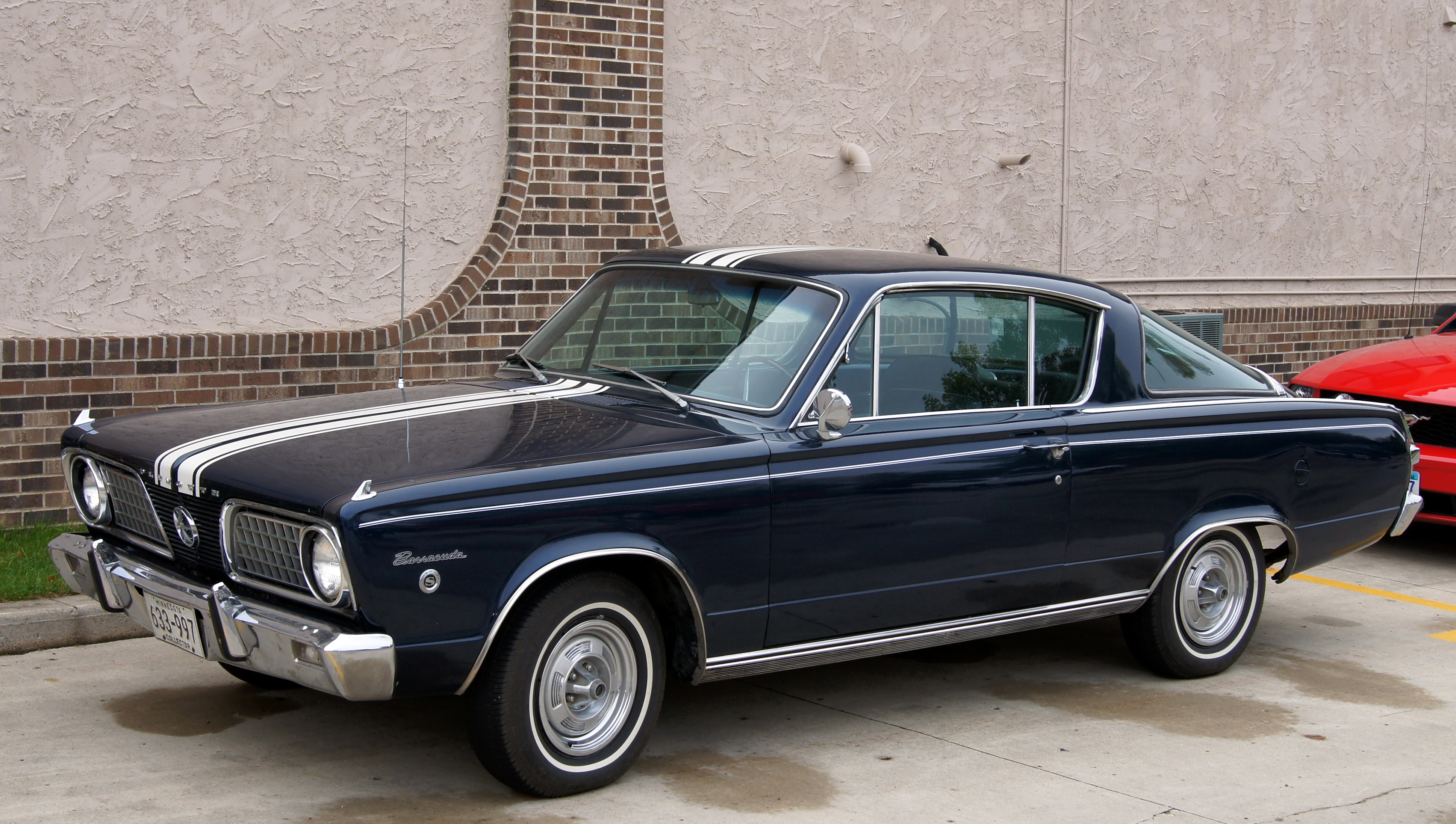 Willmar Car Club Car Buffs' Breakfast Spicer American Legion October 2013